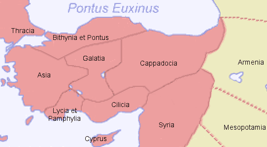 Turkey under the Roman Empire's rule